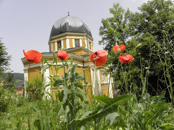 Franciscan monastery in Fojnica